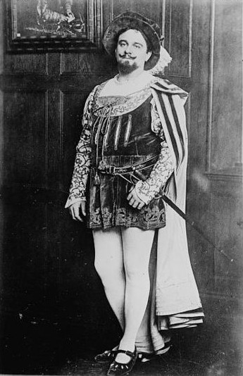 Orville Harrold (1878 - 1933), American tenor